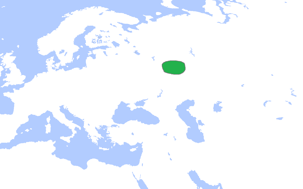 Locator map of the Volga Bulgaria-state, c. 1200. (Partially based on Atlas of World History (2007) - The World 1000-1200, map)